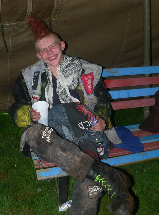 Punkáč v České republice /Punk in the Czech Republic I am the autor of the photo.